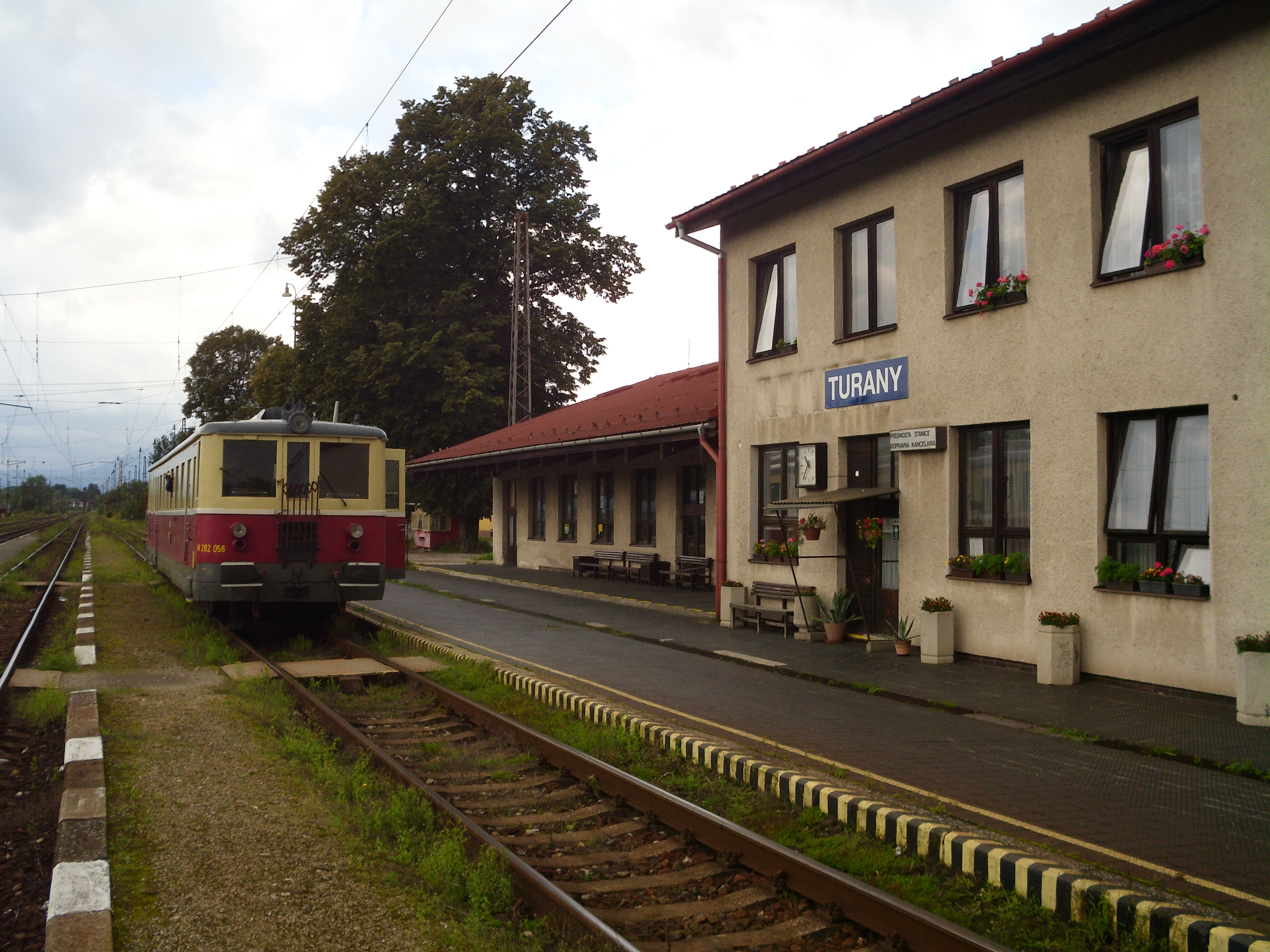 Train station in Turany on a route from Žilina to Košice.